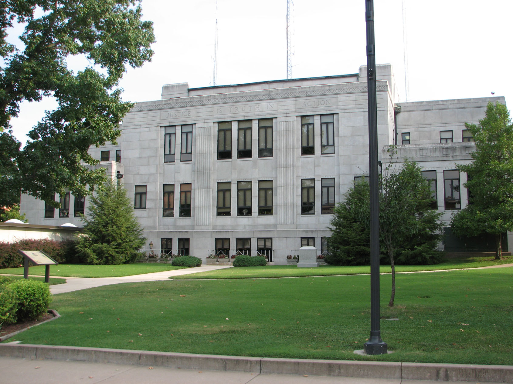 Photograph of side of the Newton County Courthouse in the square at Neosho, Missouri. Taken by RebelAt in August, 2006.